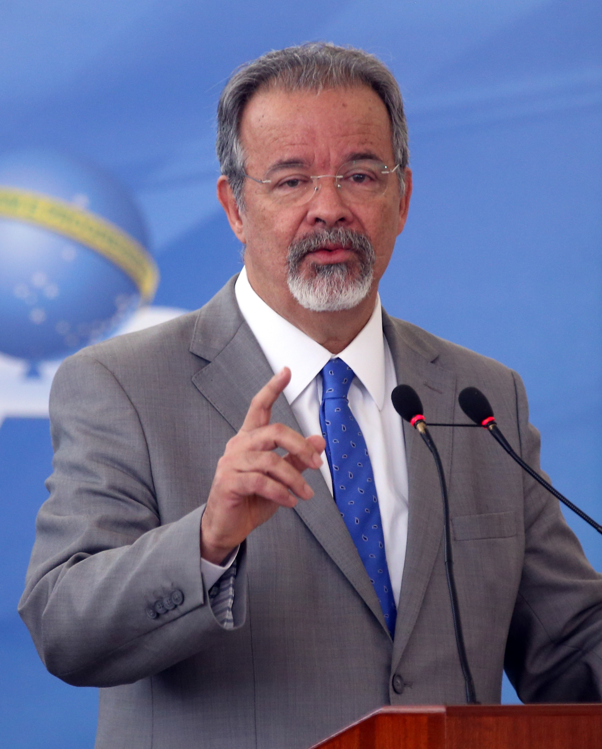 Brasília - O ministro Extraordinário da Segurança Pública, Raul Jungmann, discursa durante cerimônia de posse, no Palácio do Planalto (Antonio Cruz/Agência Brasil)